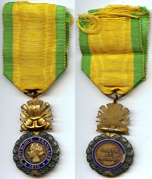 French Médaille militaire